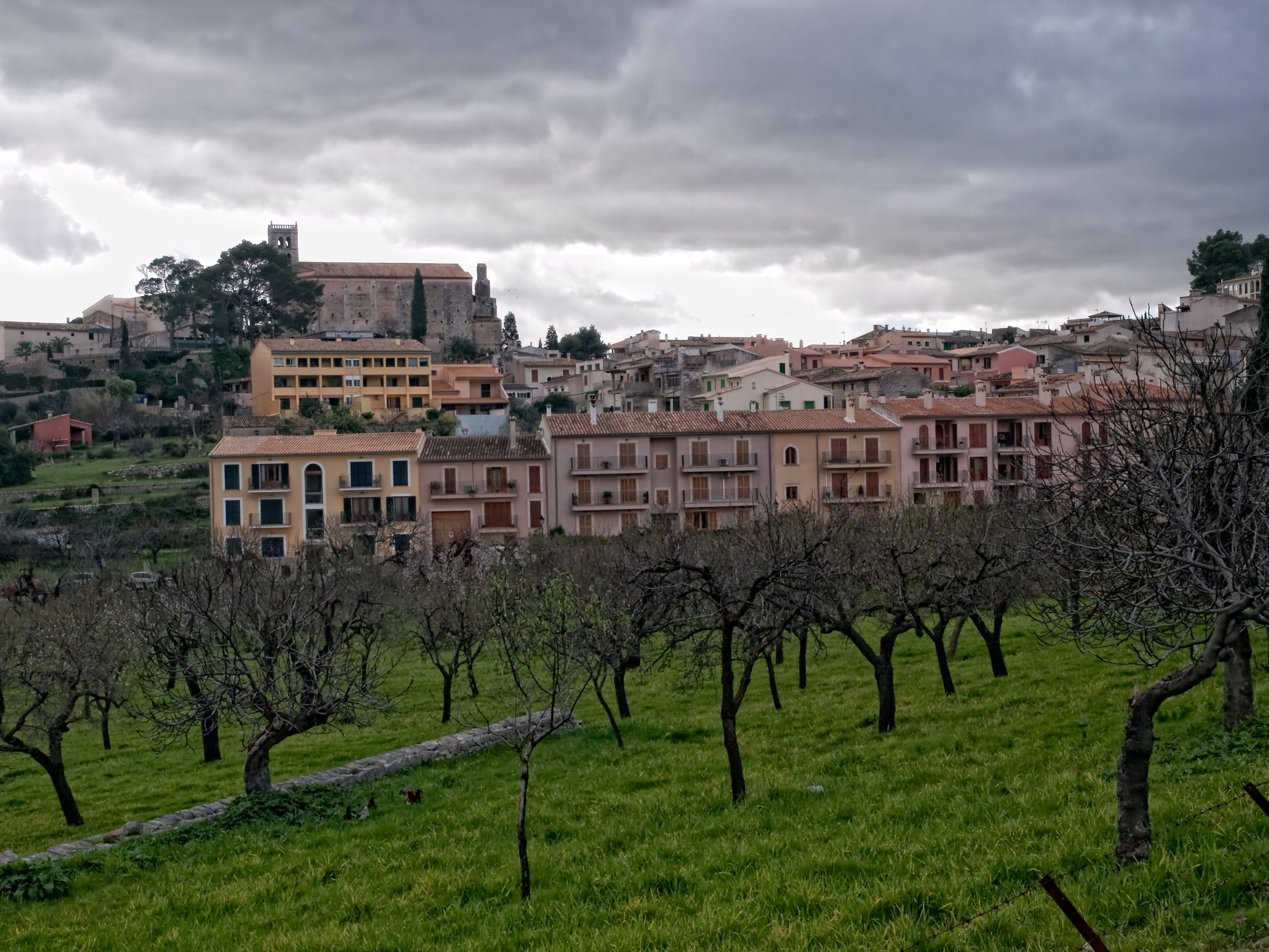 General Landscape of Selva (Mallorca)